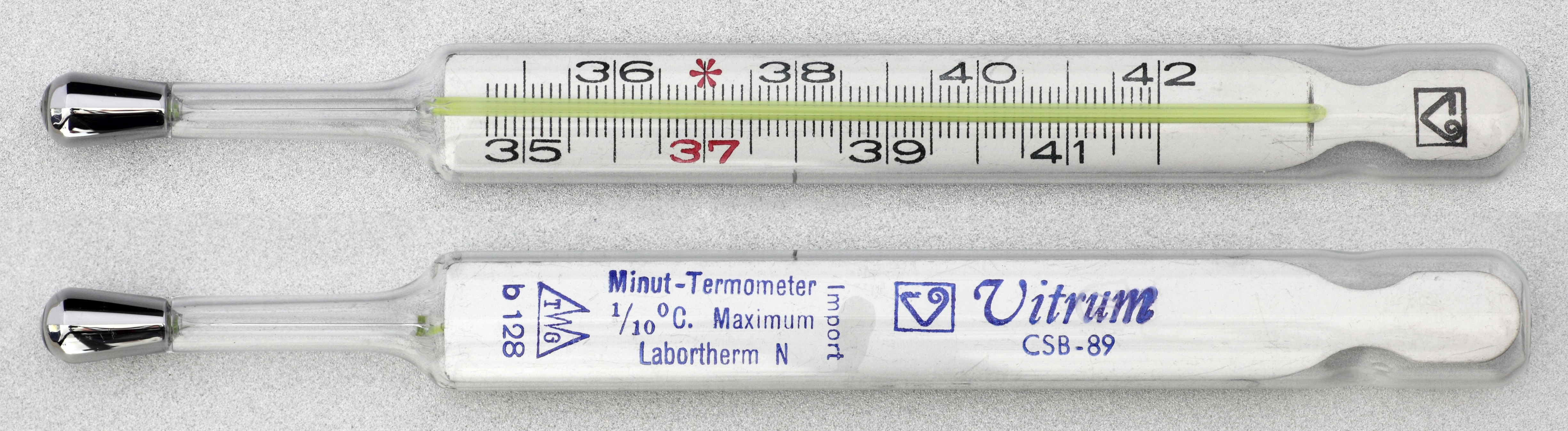 mercury medical fever thermometer with rectal test prod